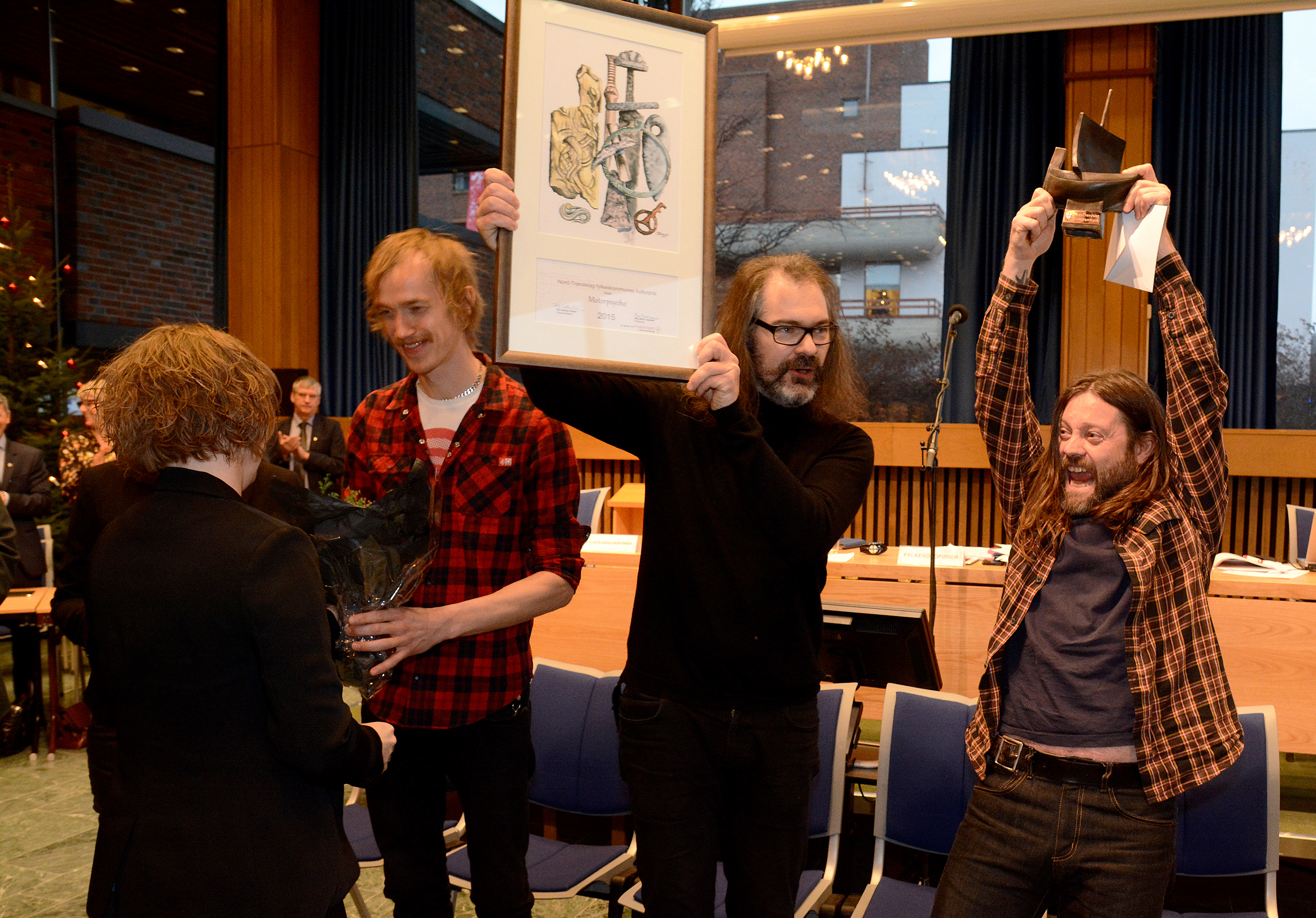 Norwegian rock band Motorpsycho when awarded Nord-Trøndelag fylkes kulturpris 2015 (The 2015 annual culture prize from the Nord-Trøndelag county council) at Steinkjer city hall december 8th 2015